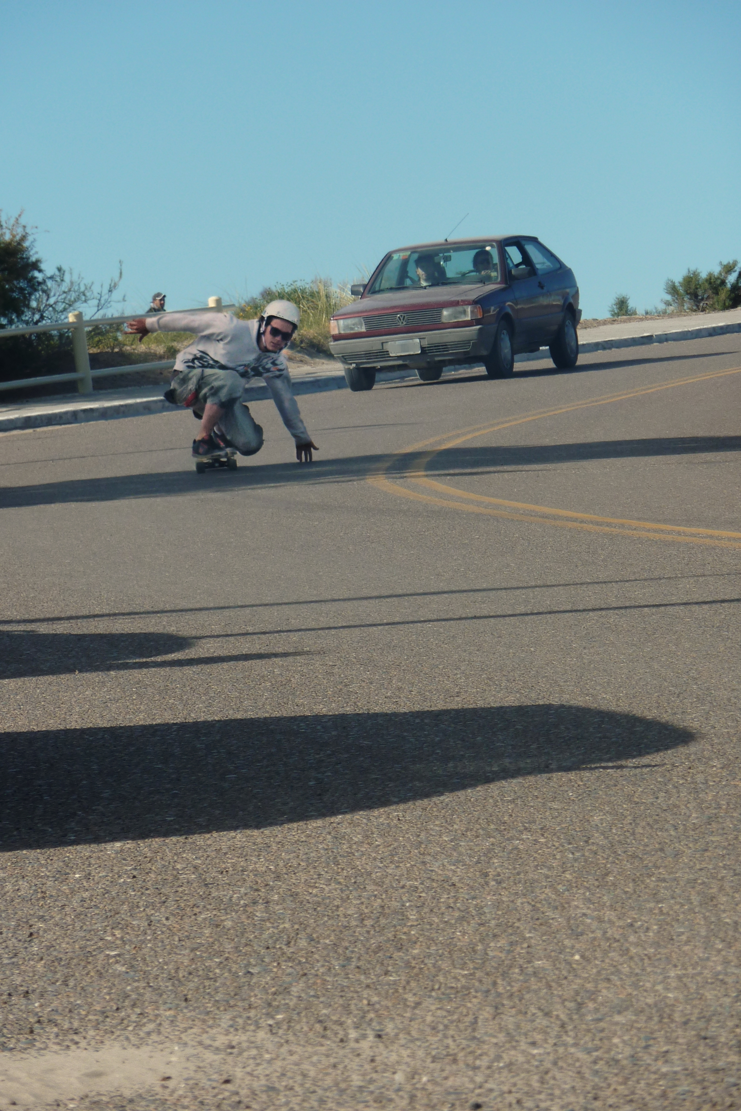 downhill skater near Puerto Madryn, Chubut, Argentina